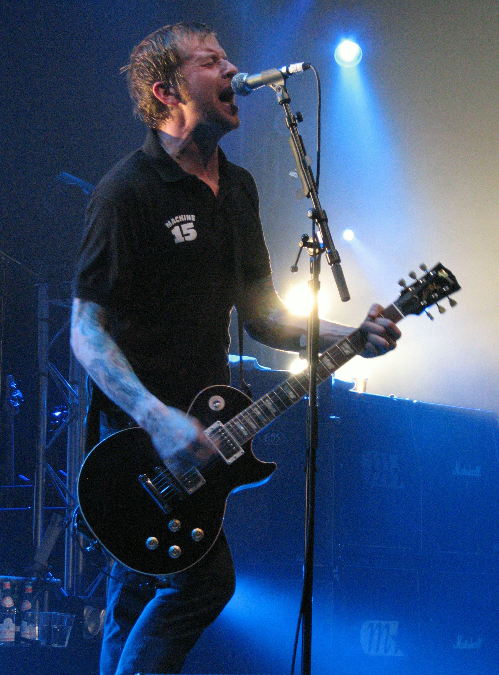 Mathias Färm of Millencolin (live at Conventum, Örebro, Sweden).